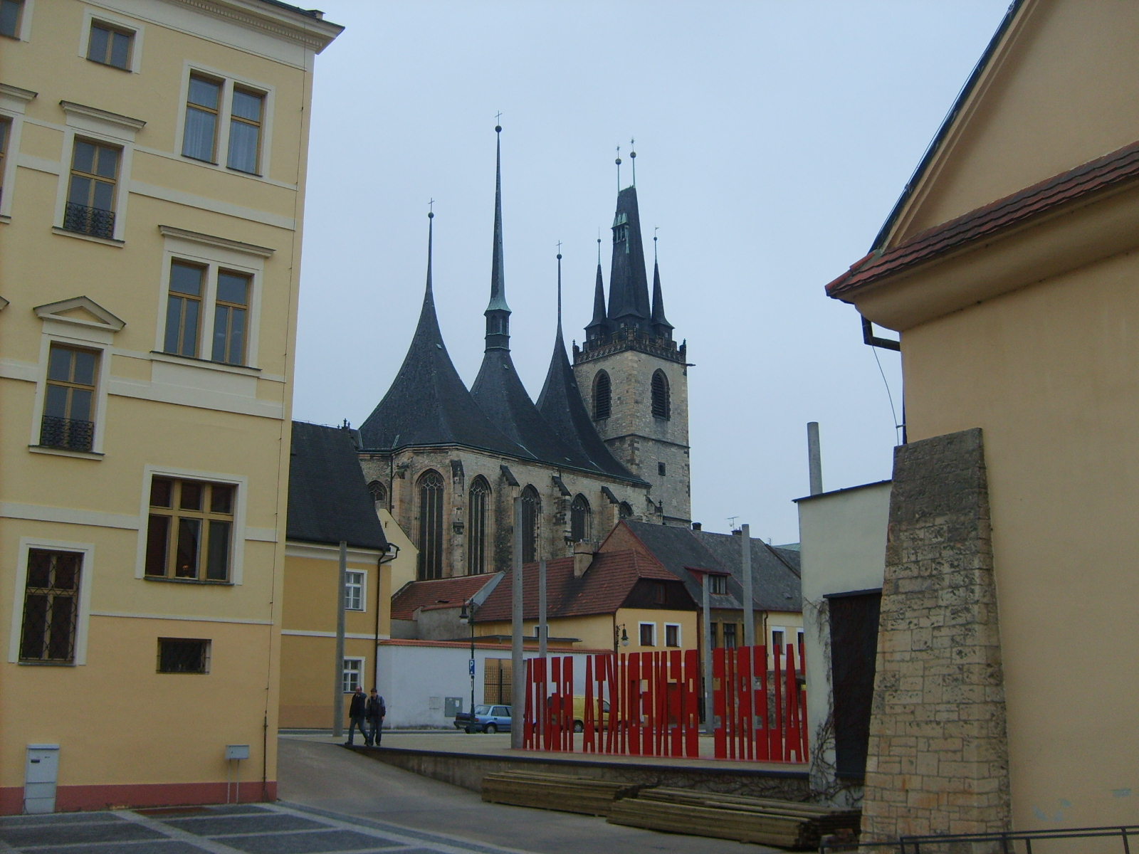 Late Gothic St. Nicholas church in Louny, Czech Republic.